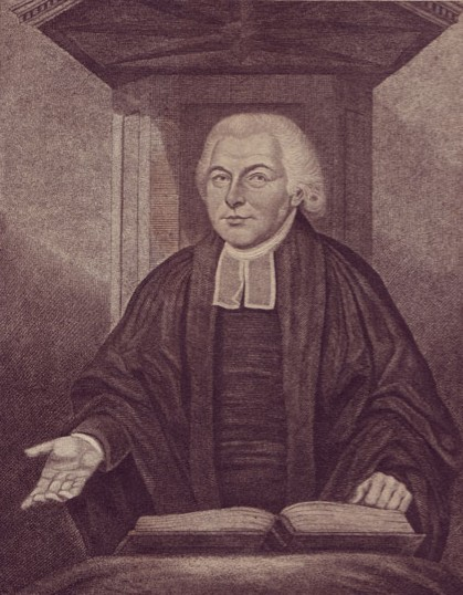 Portrait of William Aldridge (1737–1767), English Congregationalist minister at Jewry Street Chapel, London.